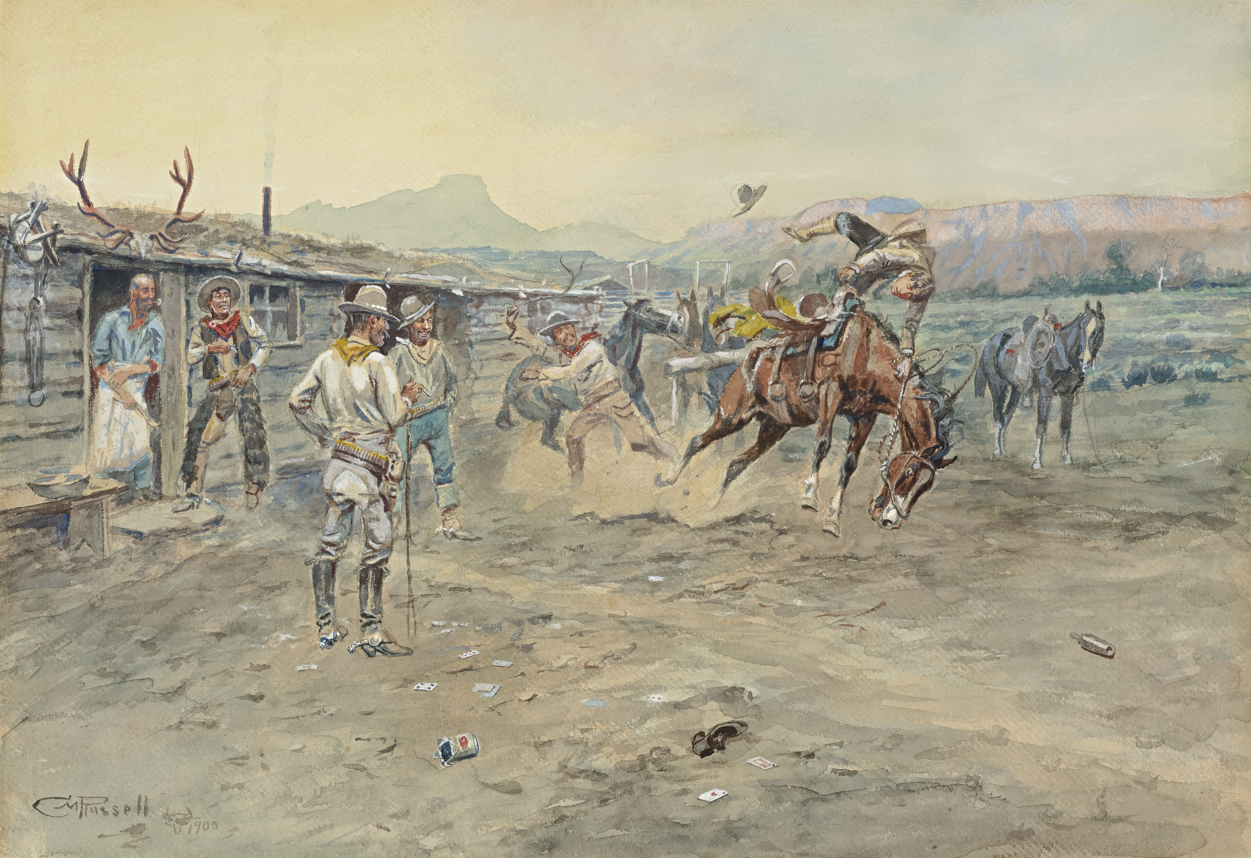 Charles Marion Russell's The Tenderfoot.